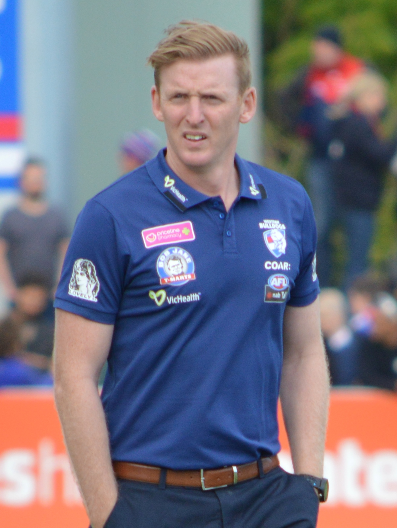 Paul Groves during the round 3, 2017 AFL Women's match between the Western Bulldogs and Melbourne at Whitten Oval.